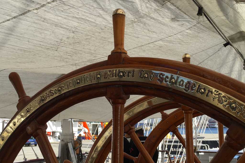 Rudder of Portuguese sail ship "Sagres", formerly known as "Albert Leo Schlageter" of the Kriegsmarine